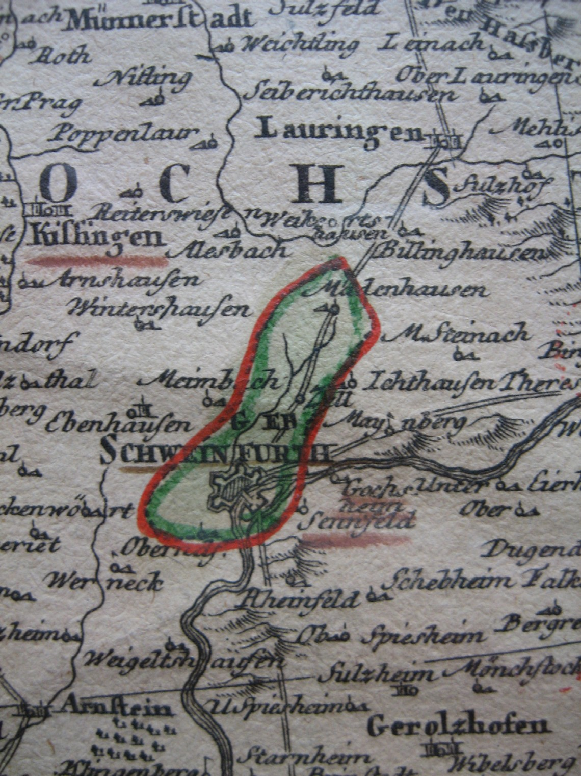 Territory of the small Free Imperial City of Schweinfurt. Despite undergoing many vicissitudes throughout the centuries and being entirely surrounded by the Prince-Bishopric of Würzburg, the Protestant city-state remained a free imperial city until 1802. Cropped from a map of Franconia published by Homann Heirs in 1782.